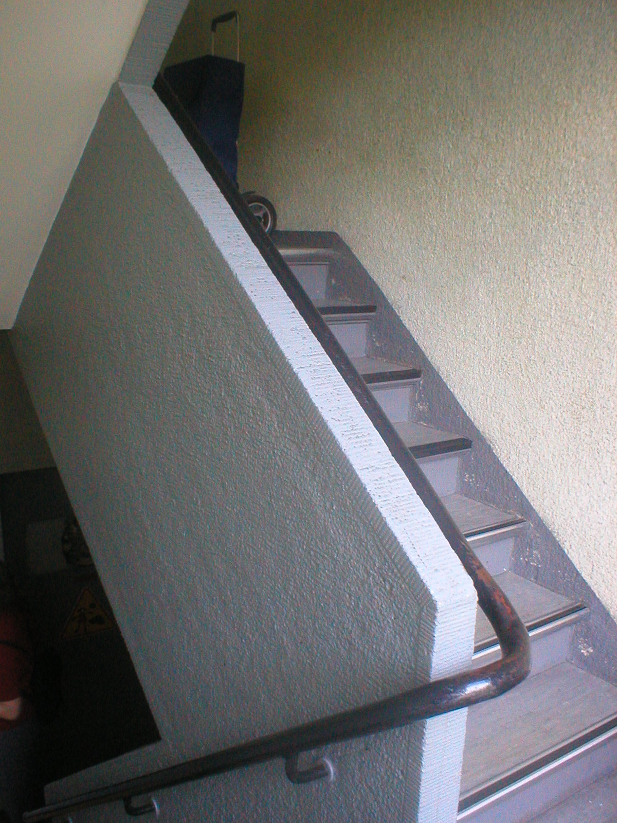 Part of the housing estate "Bornheimer Hang"designed by Ernst May, Aßmann and Carl Hermann Rudloff 1926-30 during the project "New Frankfurt"